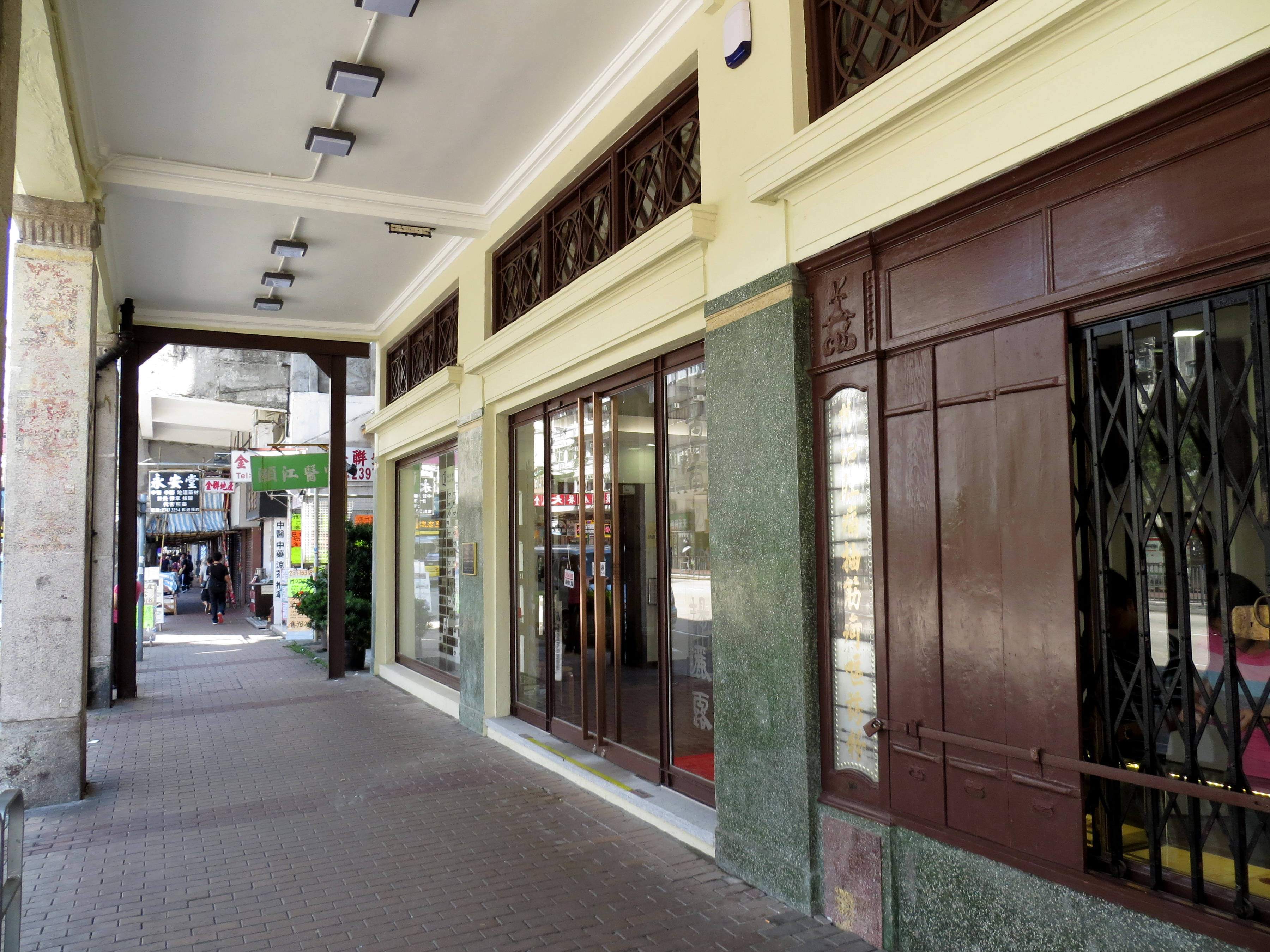 Entrance of the Lui Seng Chun, Sham Shui Po, Kowloon, Hong Kong.